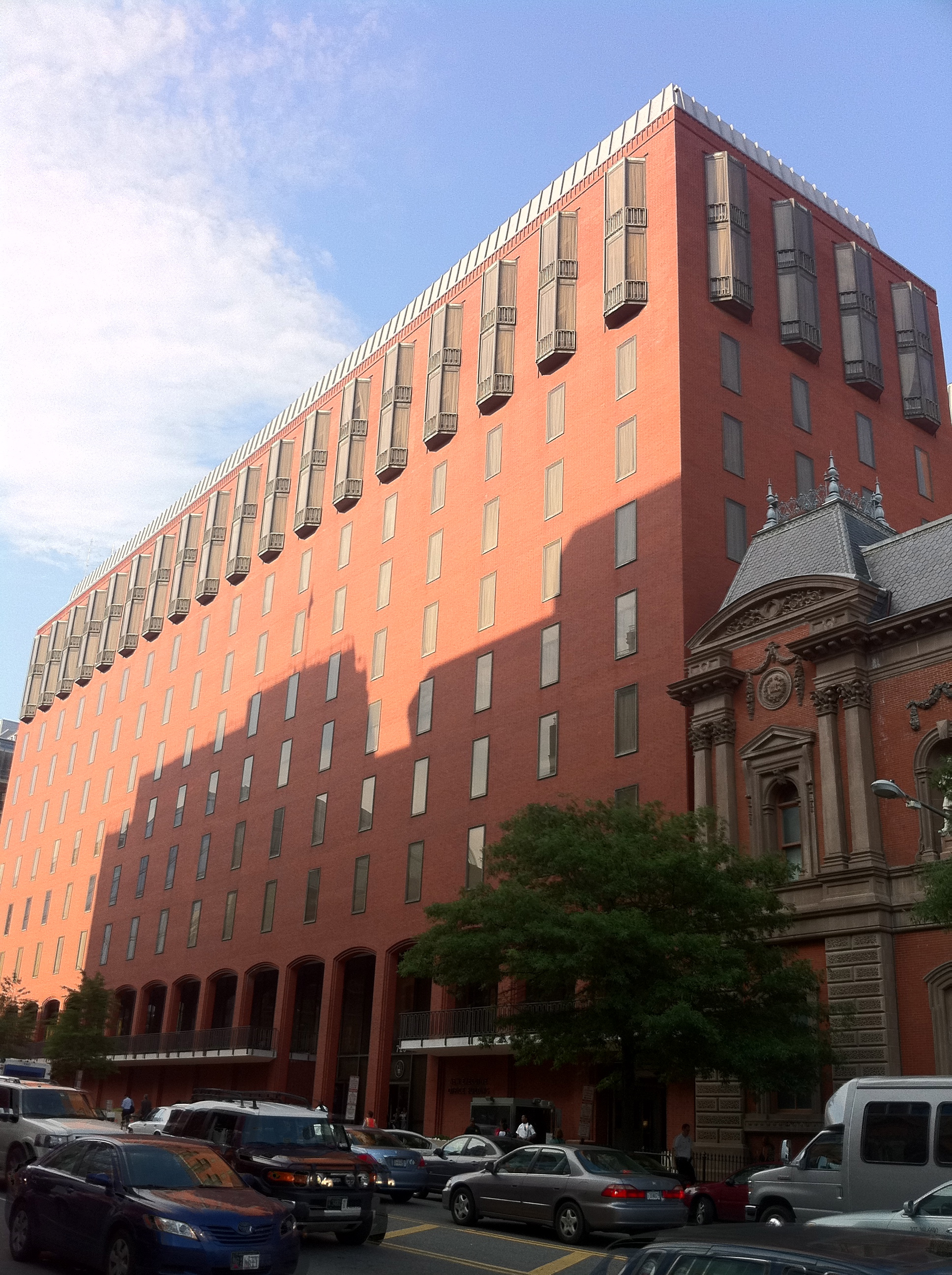 The New Executive Office Building on 17th Street NW in Washington, DC. The building is located around the corner from the White House and houses several federal agencies which are part of the Executive Office of the President.